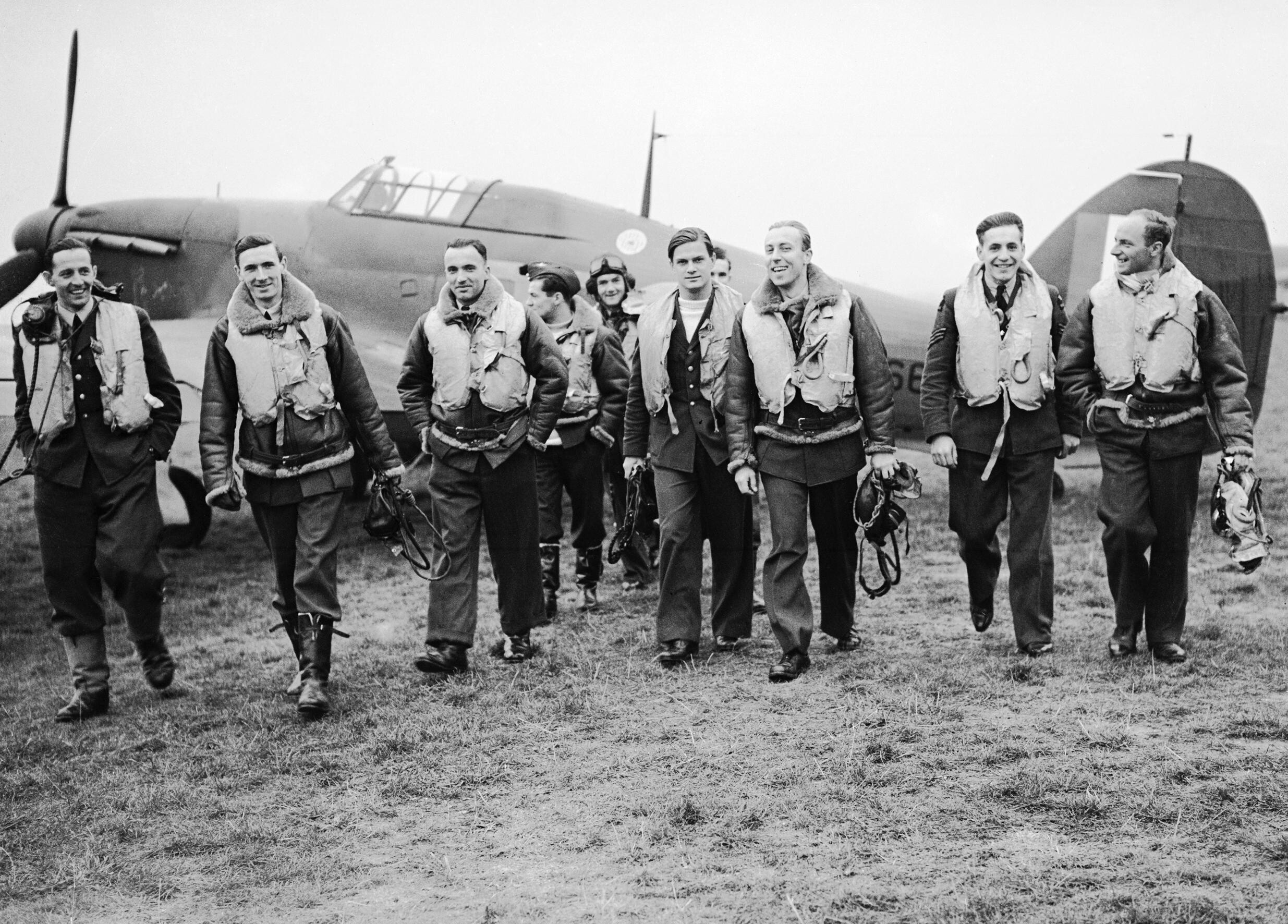 No. 303 Polish Fighter Squadron pilots. From the left side: P/O Ferić, F/Lt Kent, F/O Grzeszczak, P/O Radomski, P/O Zumbach, P/O Łukuciewski, F/O Henneberg, Sgt. Rogowski, Sgt. Szaposznikow (in 1940).